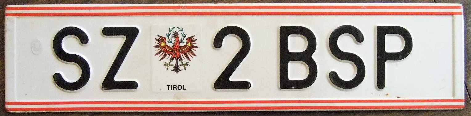 License plate of Austria 1990–2002